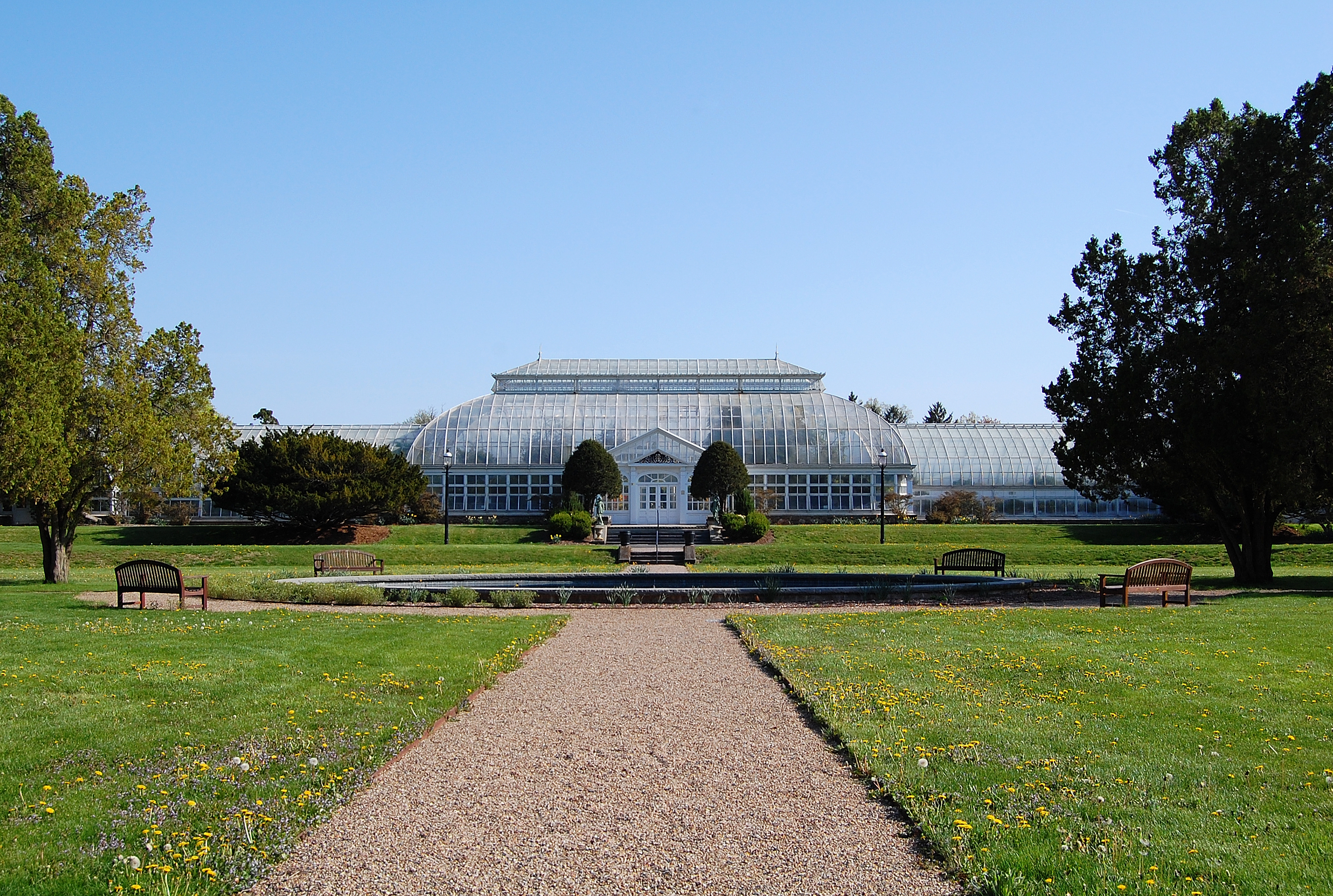 The former Duke Gardens Indoor Display Gardens conservatories, at Duke Farms — in Hillsborough, New Jersey. The Indoor Display Gardens at Duke Farms were housed in elegant turn-of-the-century glass conservatories. The gardens feature distinct designs inspired by diverse cultures and regions of the world. Italian, Colonial, Edwardian, French, English, Chinese, Japanese, and Indo-Persian designs are juxtaposed near desert, tropical, and semi-tropical greenhouse environments. In 1958, Doris Duke began a six-year process of designing and creating the display gardens. She traveled the globe seeking specimens and ideas to complete the gardens, which she first opened to the public in 1964. Closure After May 25, 2008, all the historic Indoor Display Gardens closed indefinitely. Reportedly, new energy efficient and handicap accessible Display Gardens in the Orchid Range greenhouse complex to the west would be open circa 2010.